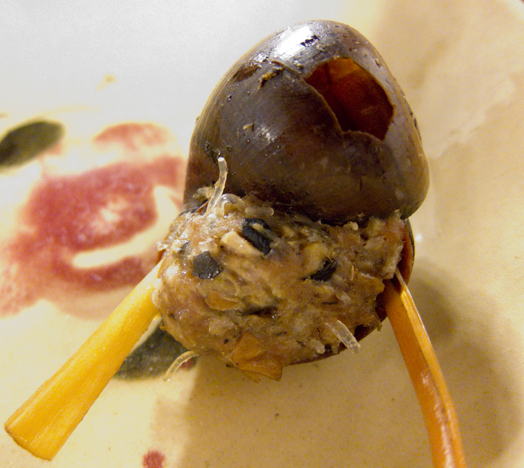 Snails stuffed with pork.